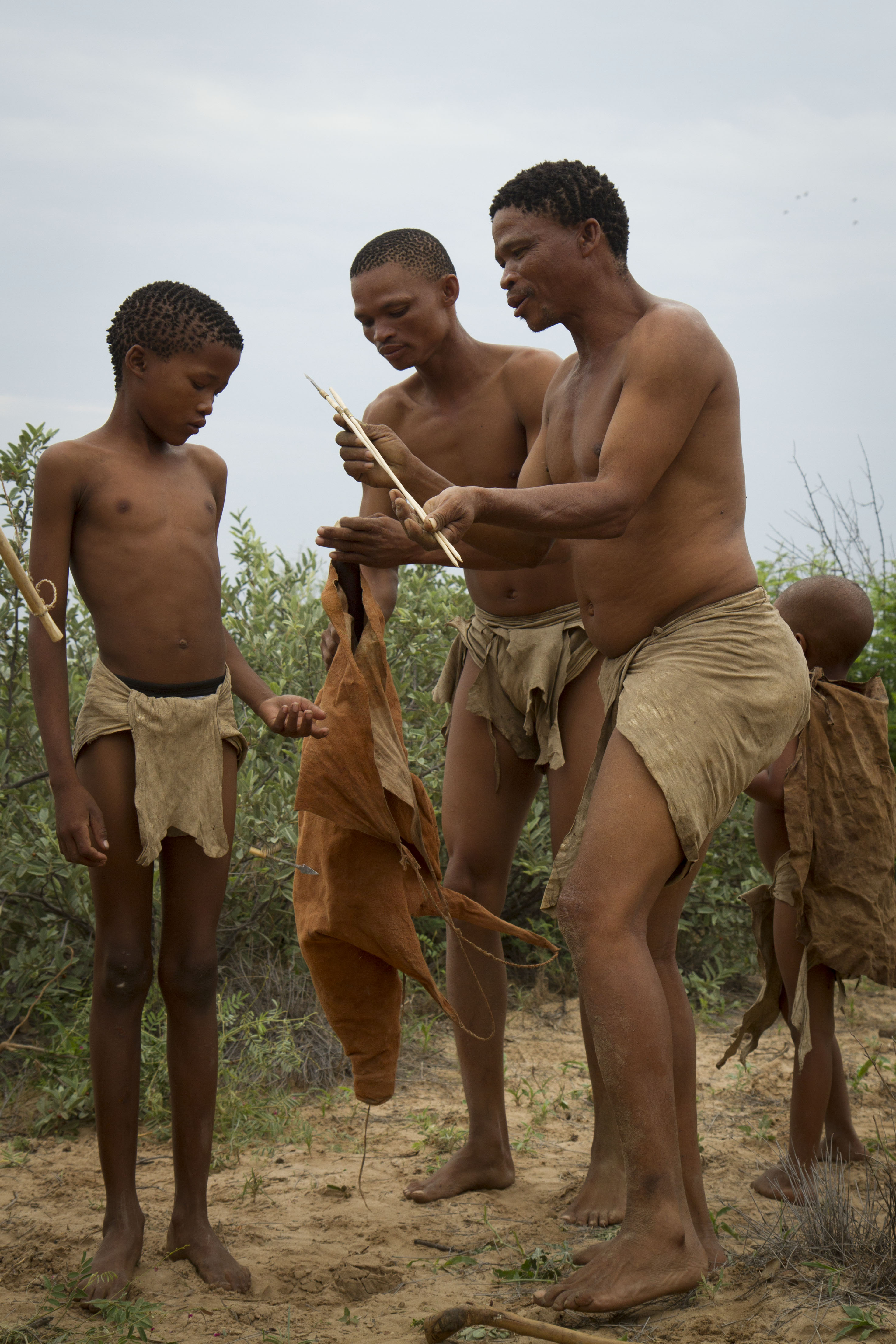 Day with bushman in Grassland Bushman Lodge, Botswana